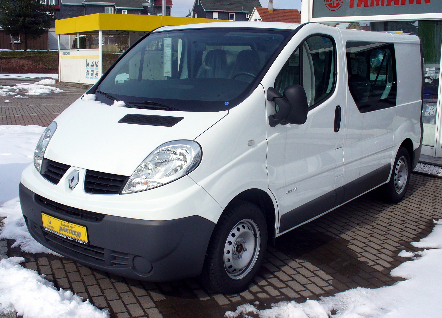 Renault Trafic Phase II